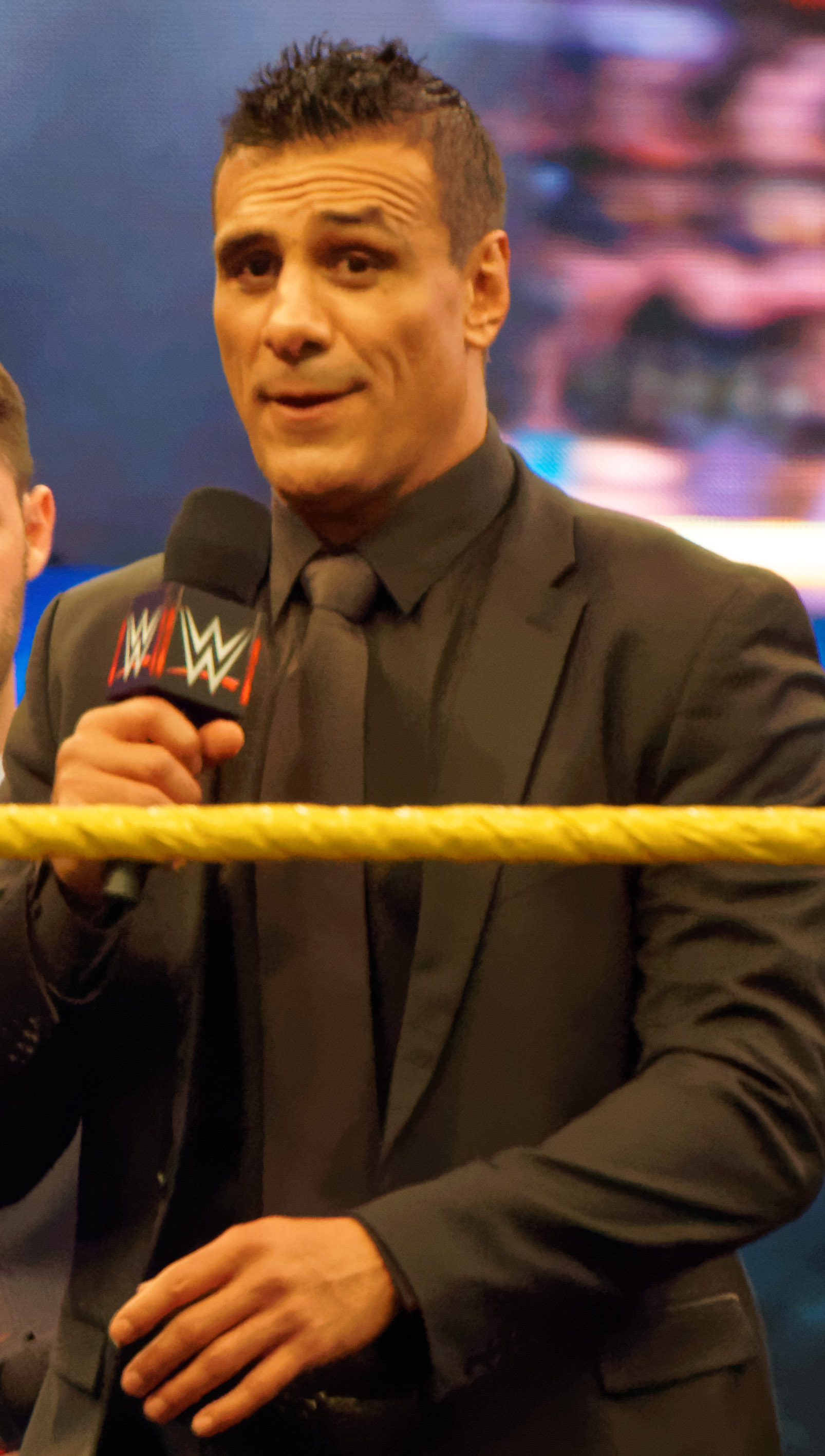 Alberto Del Rio during the WrestleMania 32 Axxess in March 31, 2016.